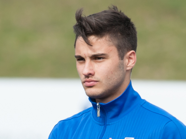 European Under-19 Championships 2015 Elite Round, Austria vs. Croatia, 28/03/2015 Wiener Neustadt, Lower Austria